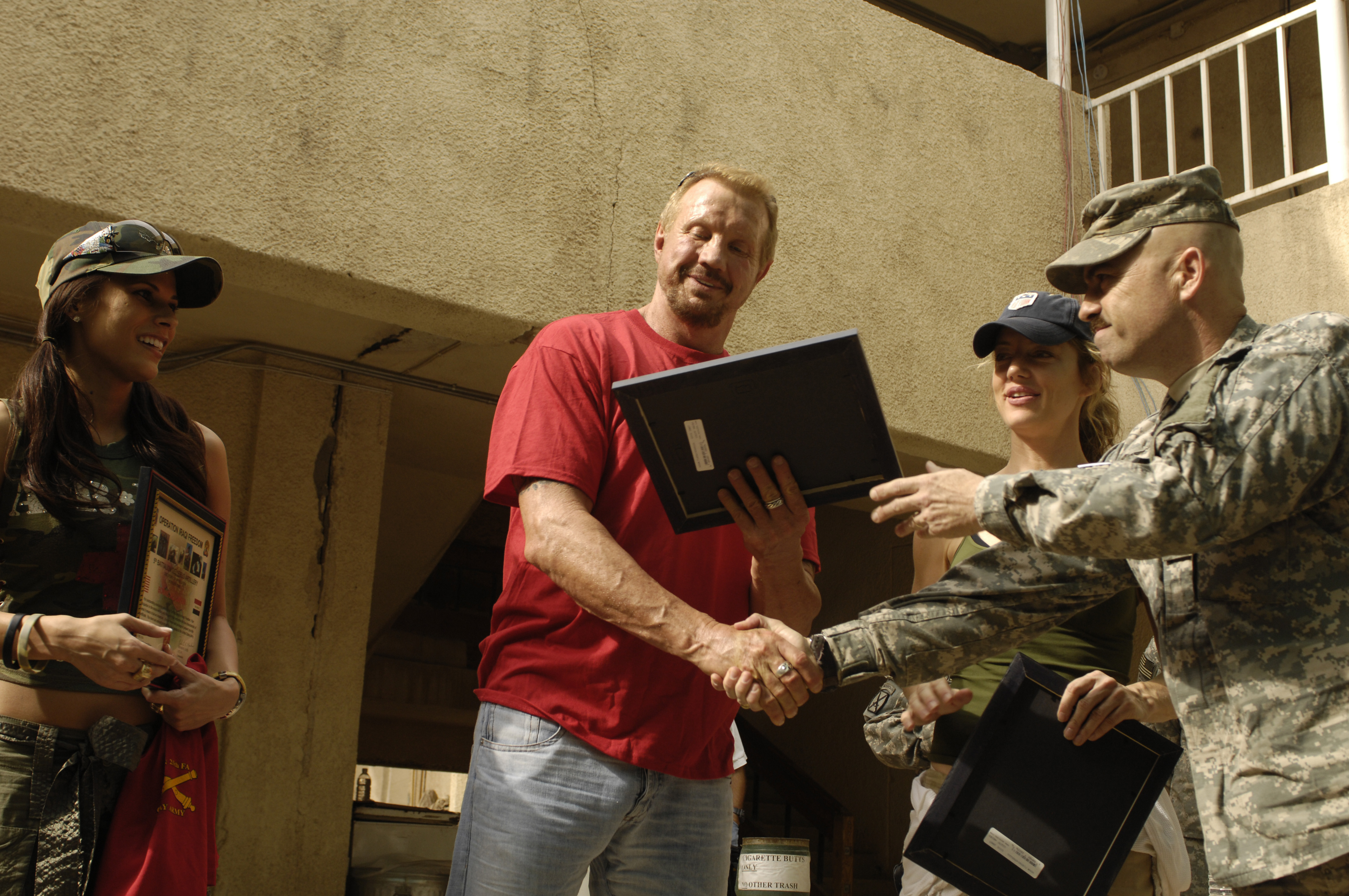 U.S. Army Maj. Robert Machen (right), executive officer for 5th Battalion, 25th Field Artillery Regiment, 4th Brigade, 10th Mountain Division, presents certificates of appreciation to former professional wrestler Diamond Dallas Page, actress Cynthia Watros and television personality Bonnie-Jill Laflin, assistant general manager for the Los Angeles Lakers Development League, as part of the Ambassadors of Hollywood Tour, sponsored by Morale Welfare and Recreation at Forward Operating Base Rustamiyah, Baghdad, Iraq, March 13.